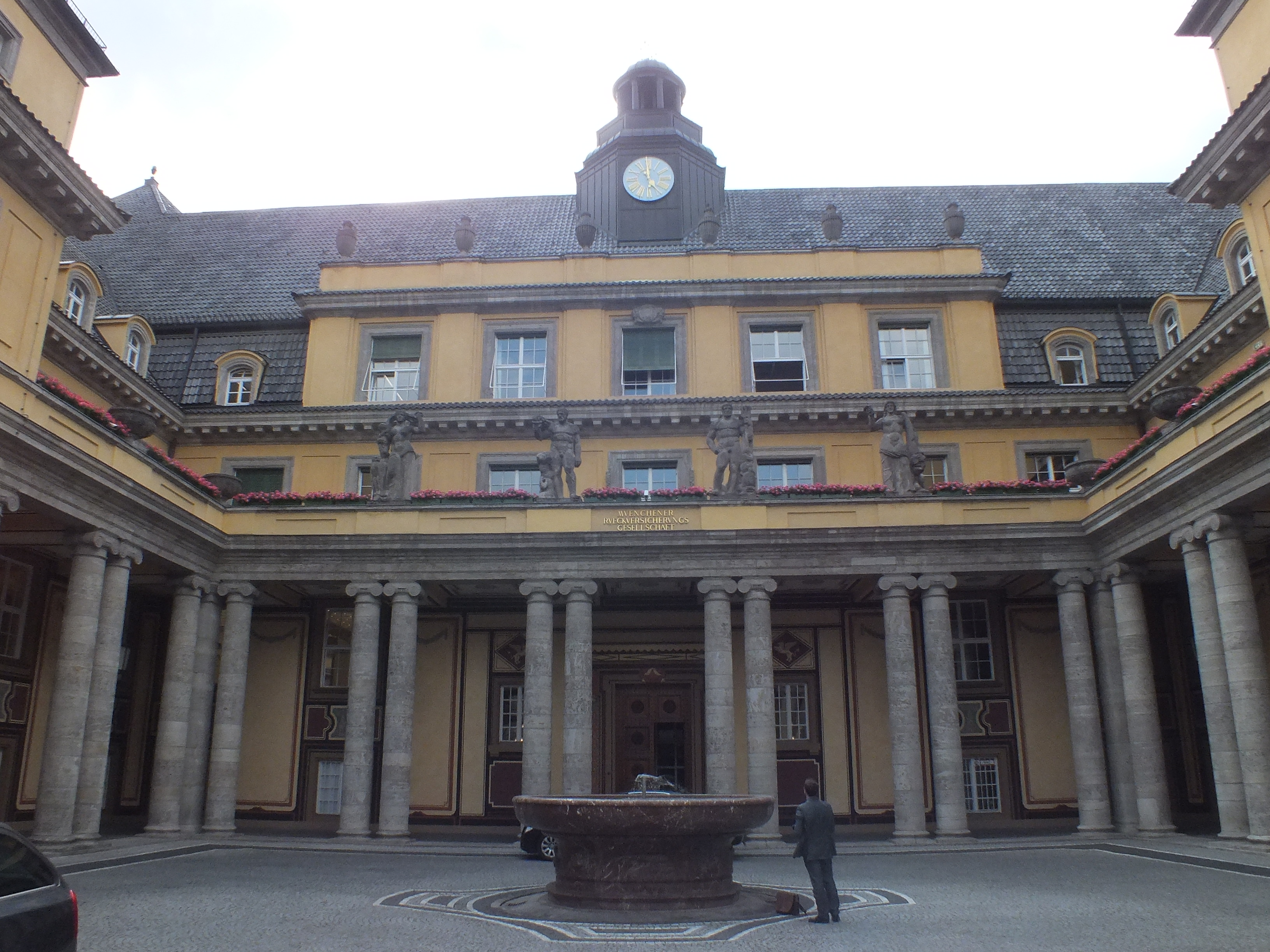 Munich Re / Königinstraße 107, München View from Königinstraße